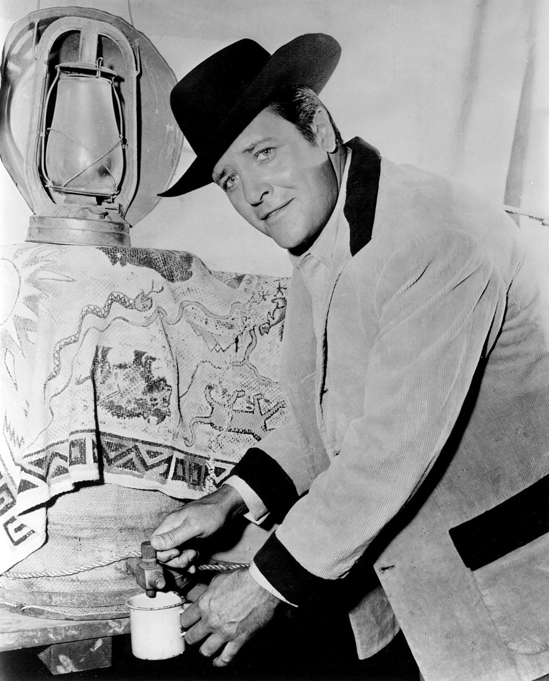 Photo of Richard Long as Jarrod Barkley from the television program The Big Valley.